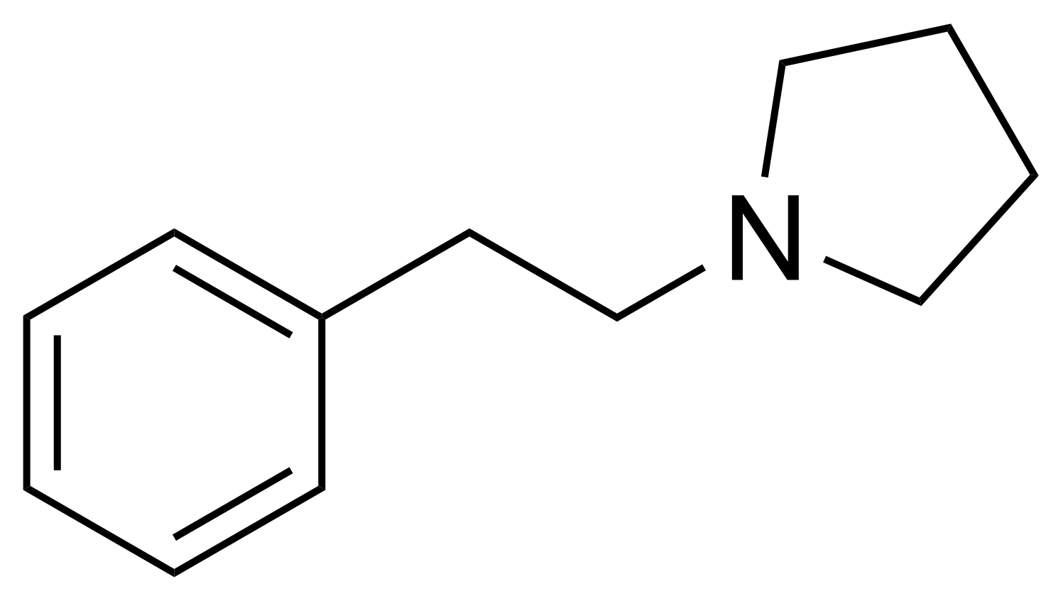 Structure of phenylethylpyrrolidine